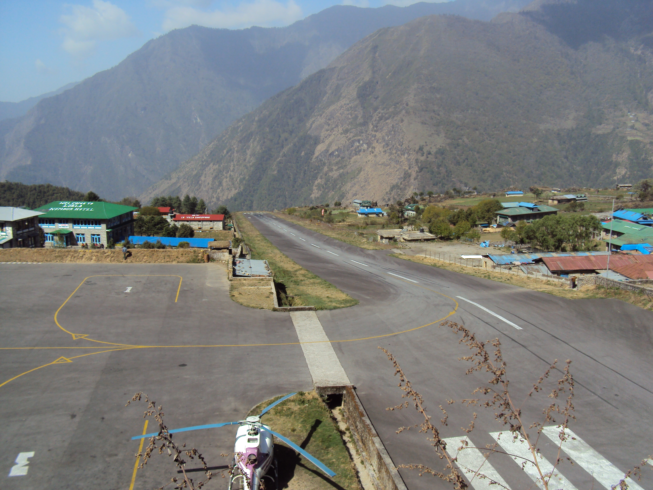 The runway at Lukla Airport in Lukla, Nepal.